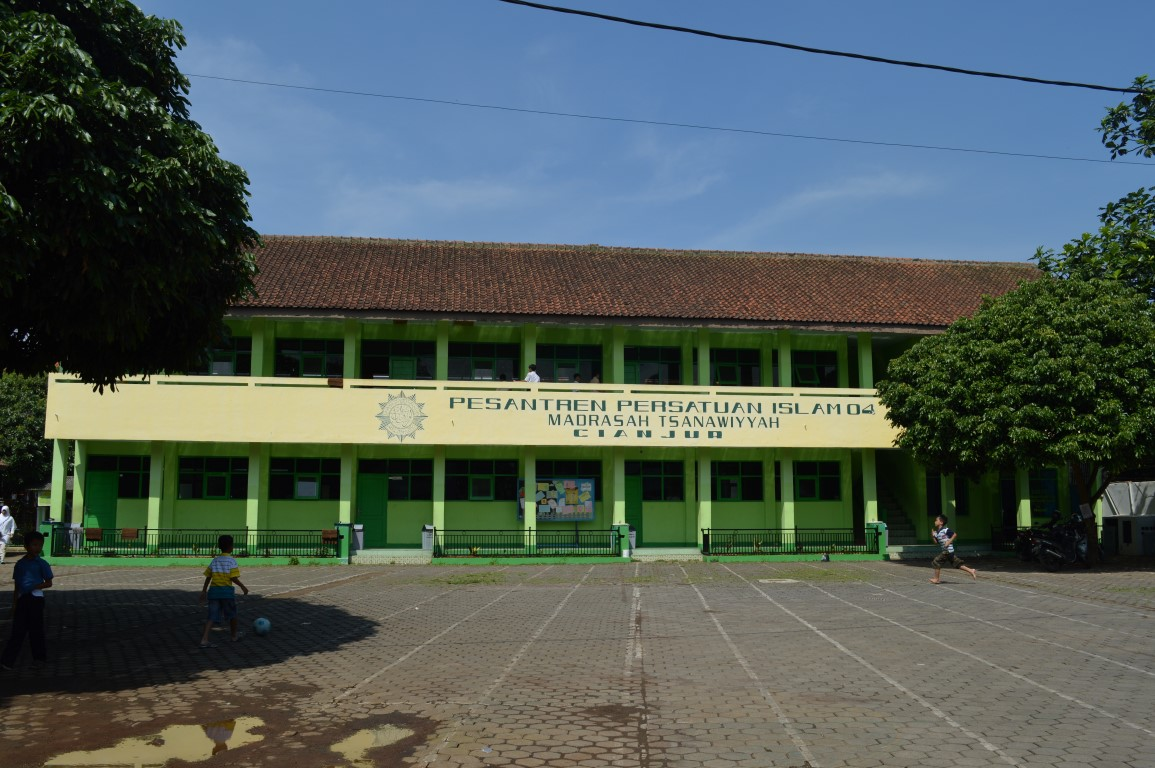 Front field of our boarding school